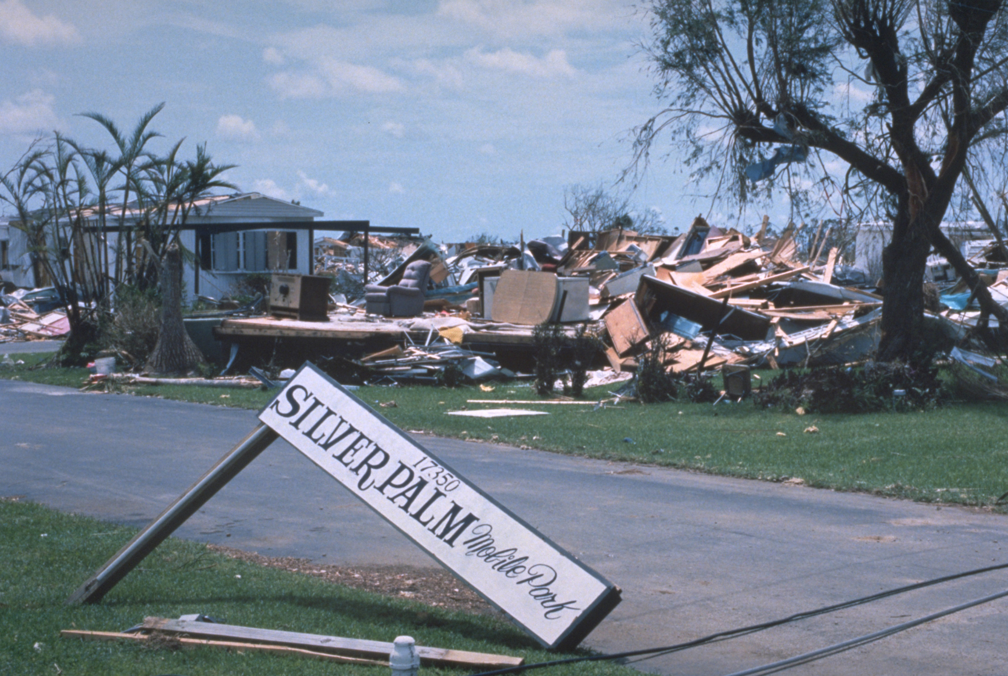 Hurricane Andrew did extensive damage to homes in Miami, including here at the Silver Palm mobile home park.